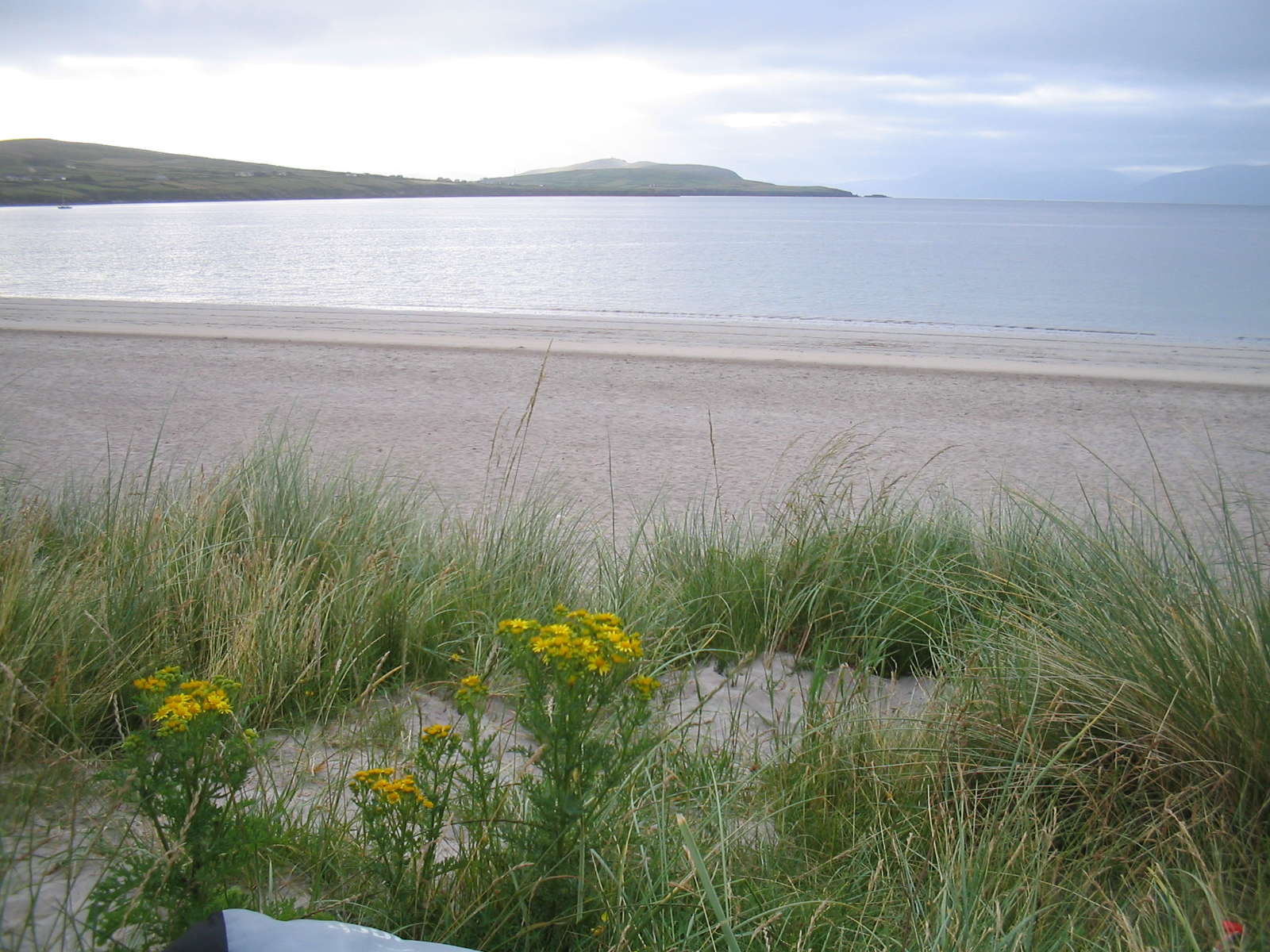 Ventry Beach near Dingle/Ventry Beach nahe Dingle